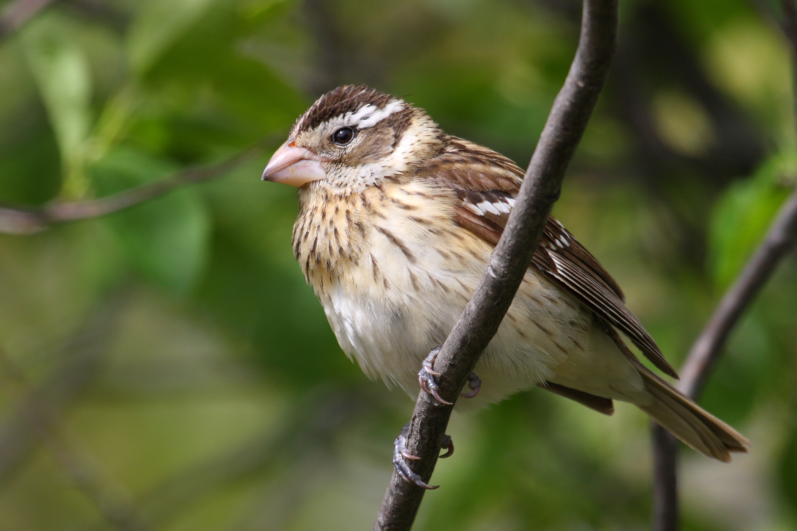 Rose-breasted Grosbeak, female, Cap Tourmente National Wildlife Area, Quebec, Canada